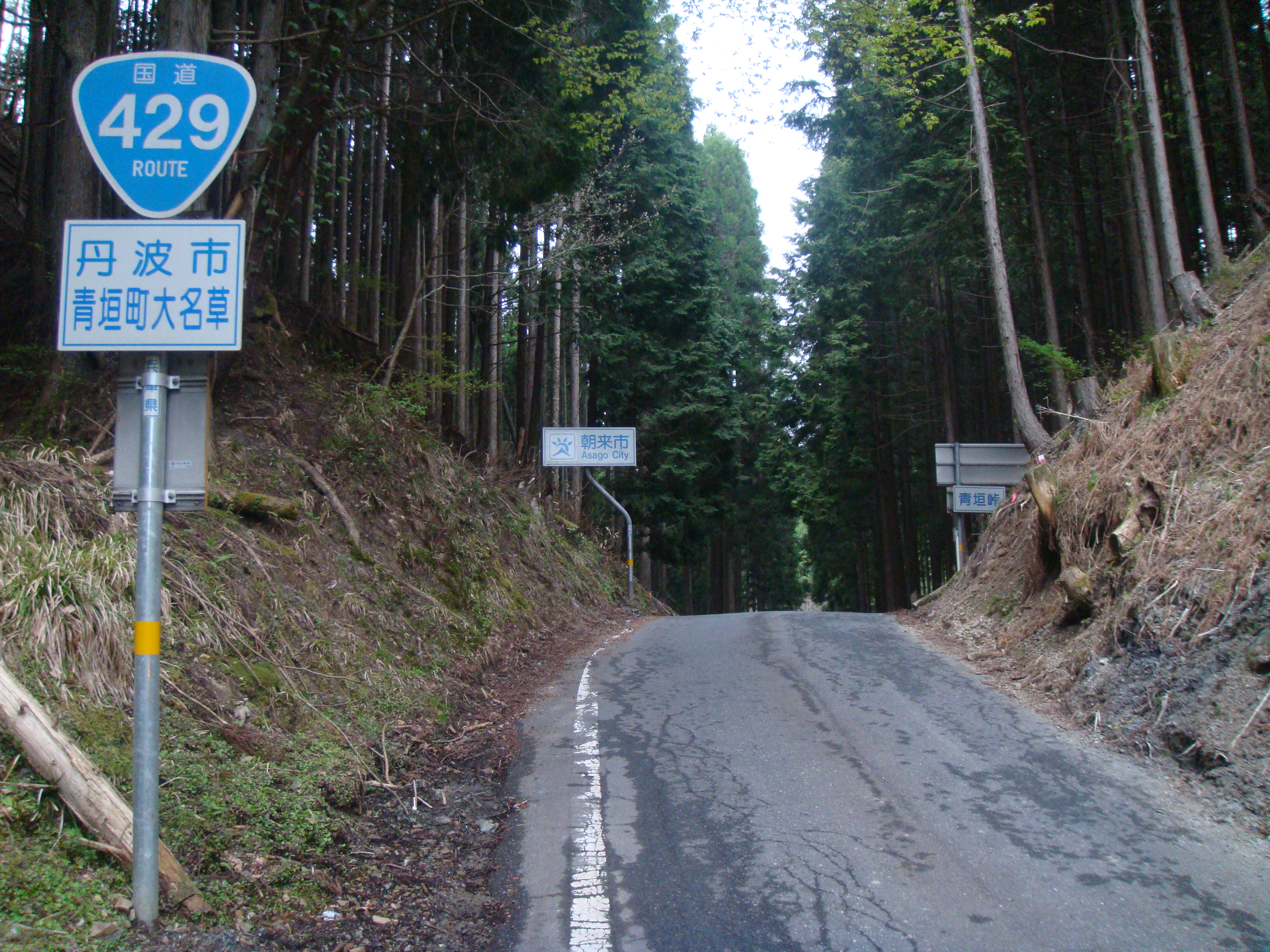 Ikuno Pass（Aogaki Pass） Place - Aogakicho-Onaza,Tamba City,Hyogo Prefecture,Japan Date - May 6, 2010 Format - JPEG, 3648x2736pixel, 24bit colors Photographer - NALA Wiki (talk)